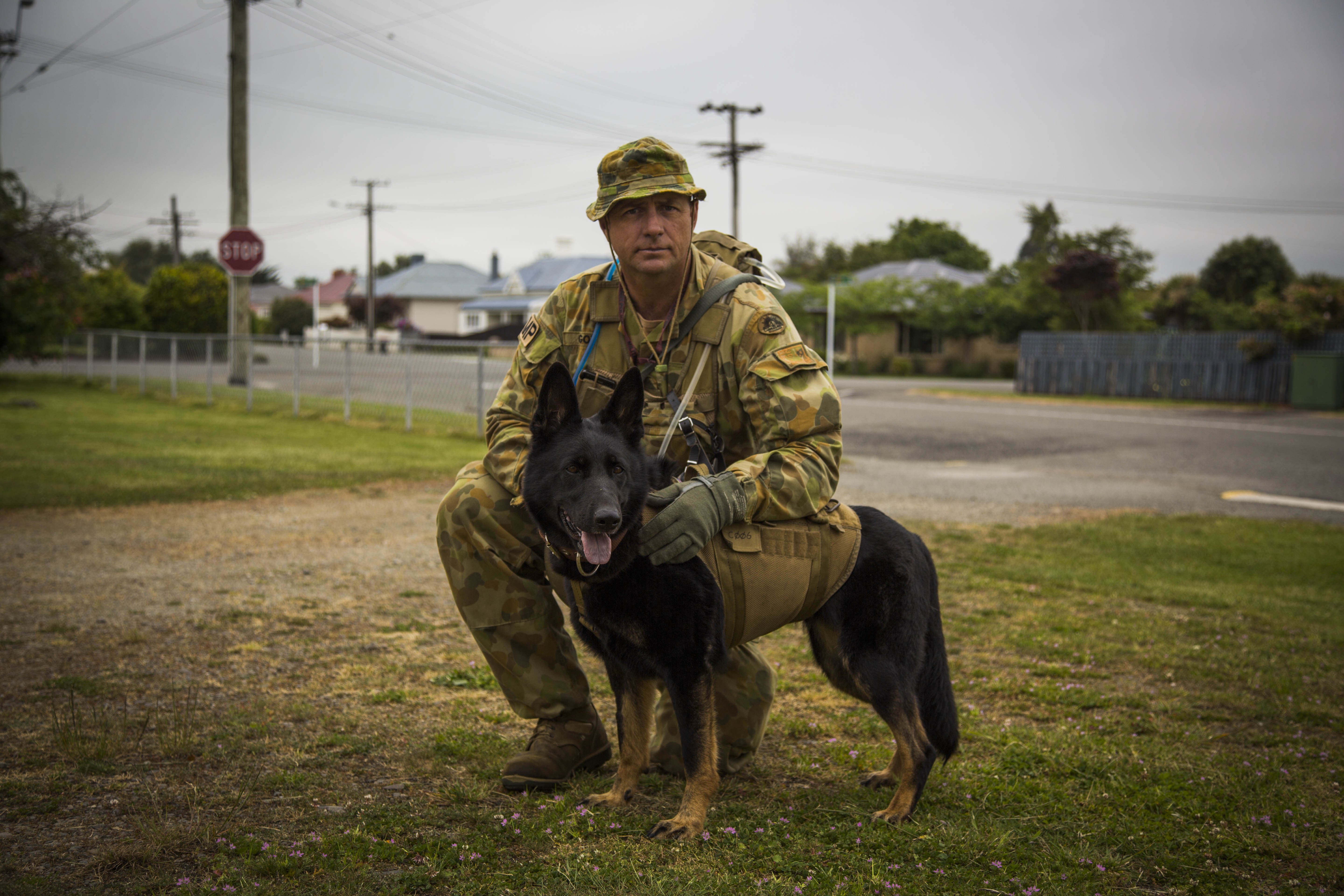 Australian Army Cpl. Steve Govett, a dog handler, and Akirra, a military police dog both with 1st Military Police Battalion, take a break while conducting a presence patrol during exercise Southern Katipo 2013 (SK13) in Waimate, New Zealand, Nov. 20, 2013. SK13 is a New Zealand led training exercise to enhance interoperability between coalition forces and to help the New Zealand Defence Force further develop its amphibious capabilities. (U.S. Marine Corps photo by Sgt. Kowshon Ye/released)